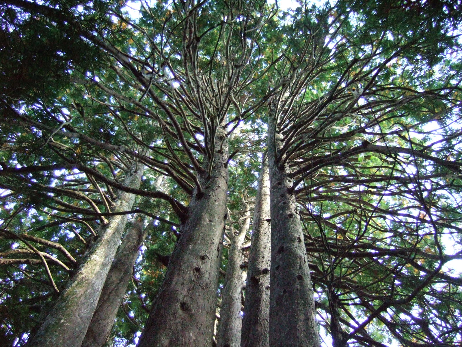 アスナロ Thujopsis dolabrata var. hondae, 十二本ヤス "Twelve intrinsically safe tree", Goshogawara Kanagi town Kiraichi Aomori Prefecture, Tohoku region, Japan.